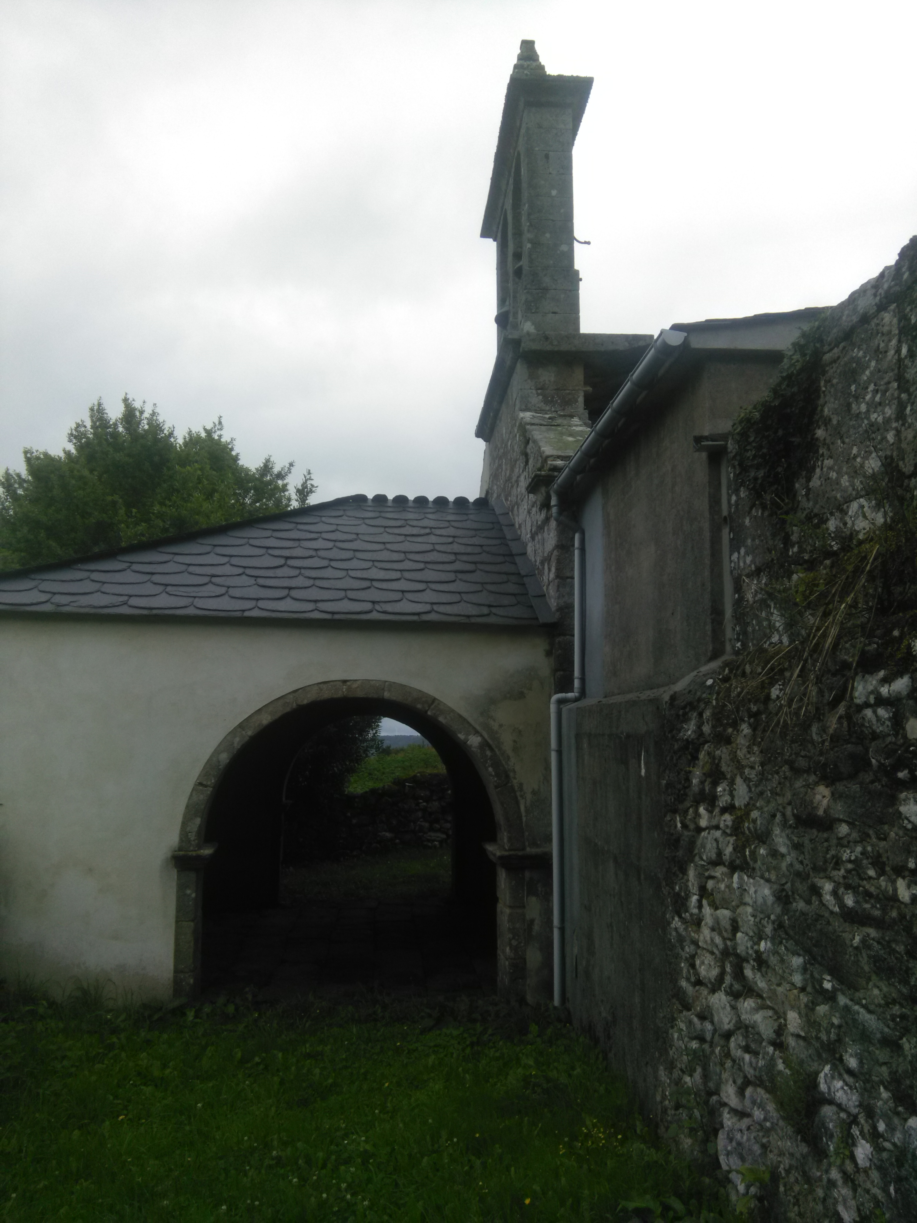 Parish church of Silán in the municipality of Muras, Lugo province (Spain)